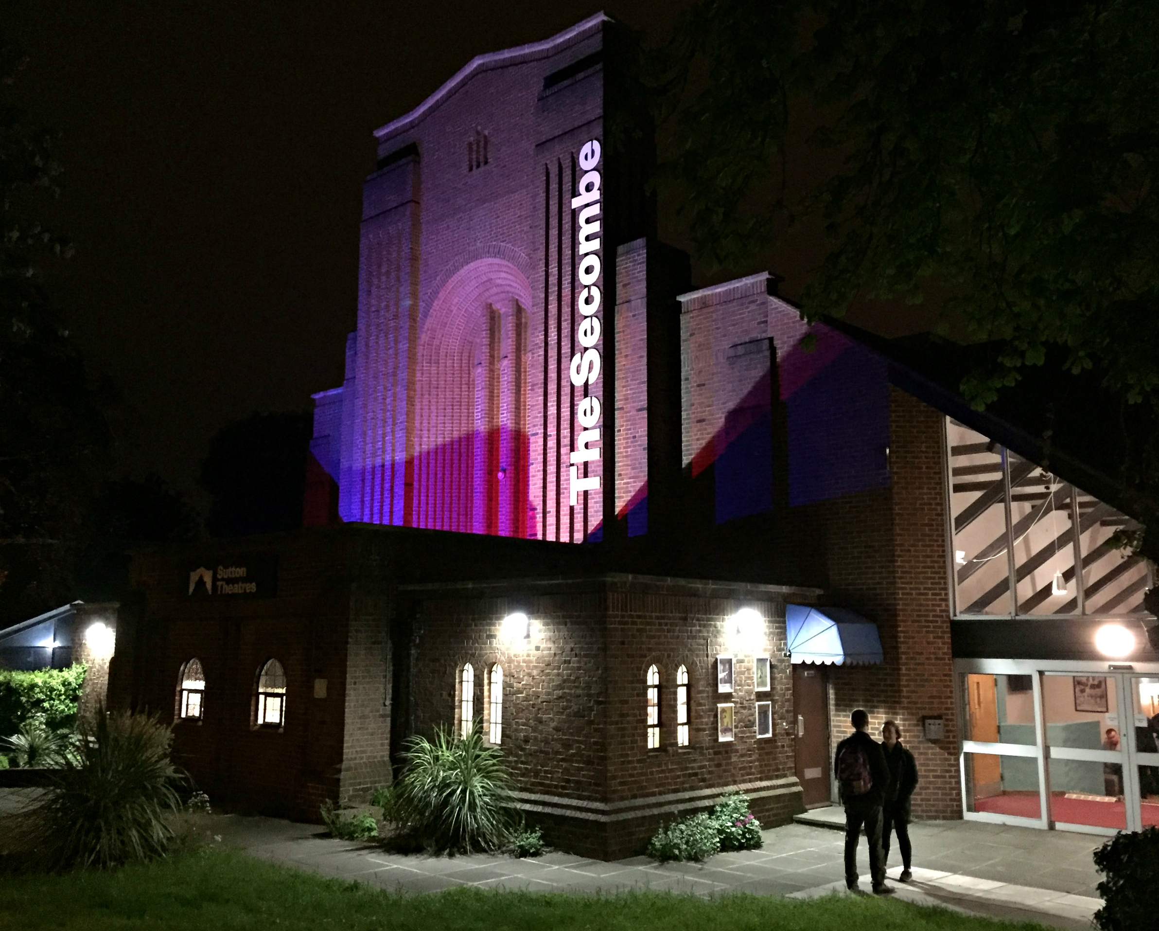 Secombe Theatre, Sutton (after Edward Bond's Dea).